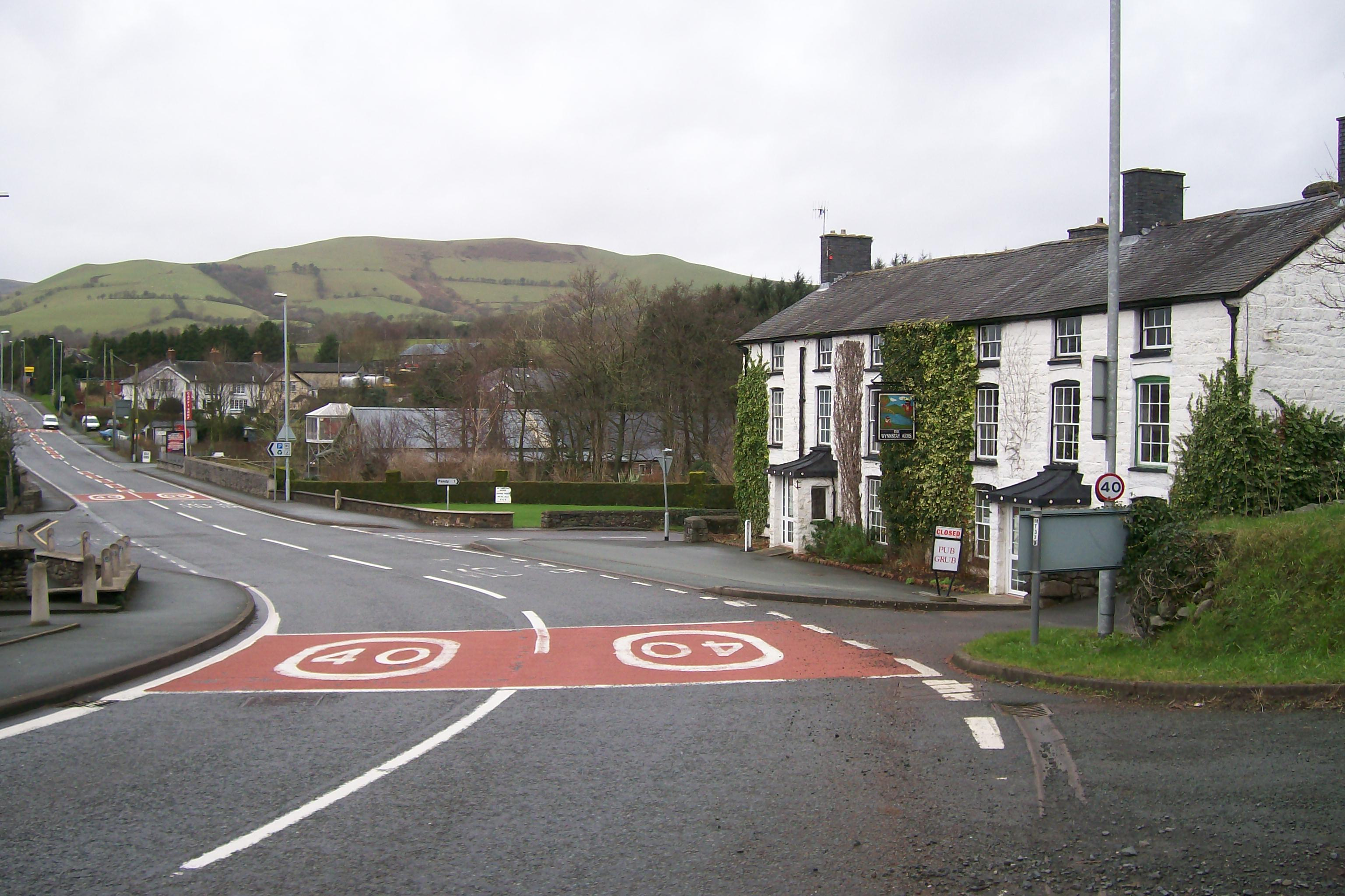 Editor's own photograph